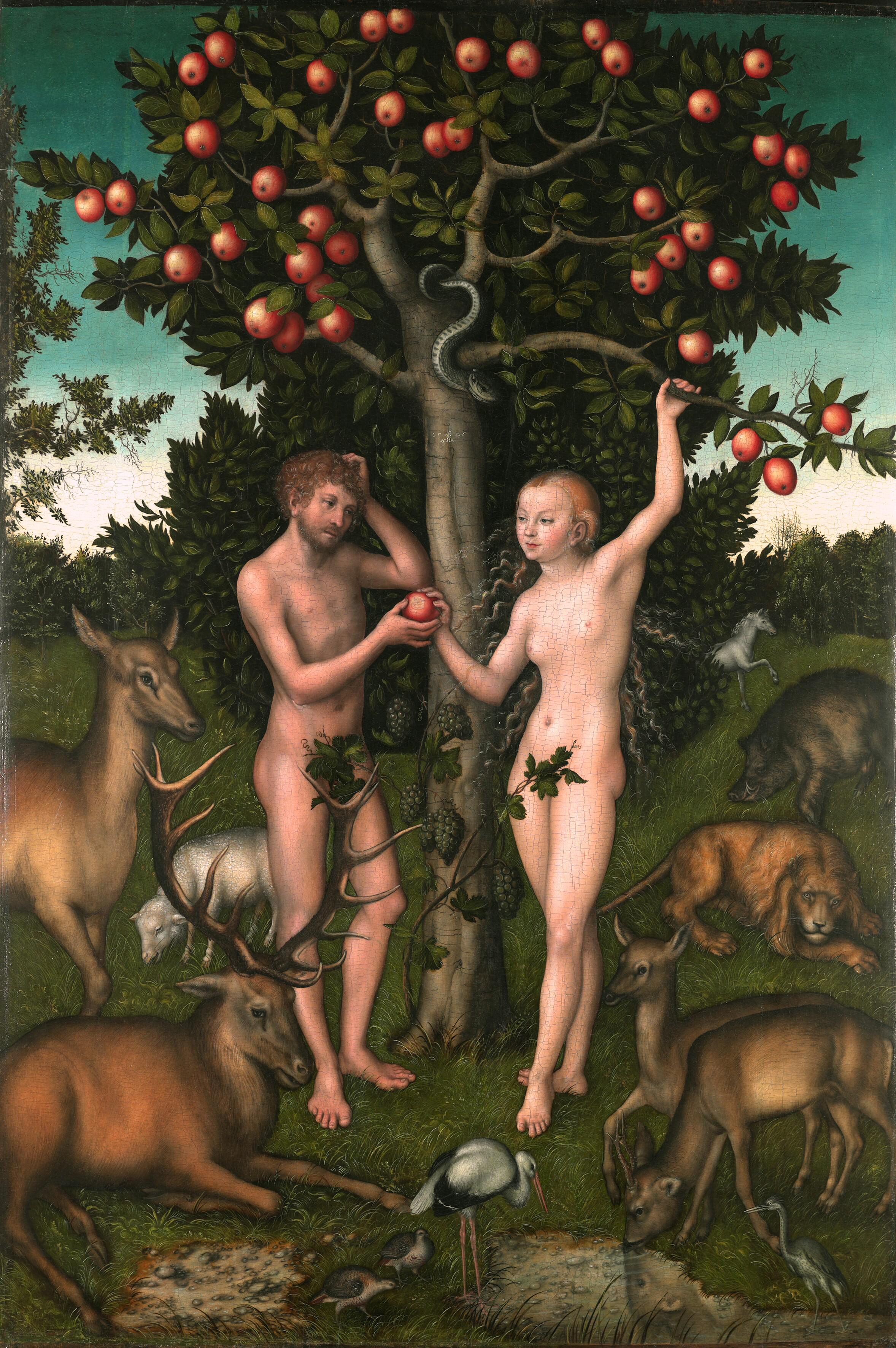 Adam and Eve brilliantly combines devotional meaning with pictorial elegance and invention. The scene is set in a forest clearing where Eve stands before the Tree of Knowledge, caught in the act of handing an apple to a bewildered Adam. Entwined in the tree's branches above, the serpent looks on as Adam succumbs to temptation. A rich menagerie of birds and animals - a stag, a hind, a sheep, a roe-buck with its mate, a lion, a wild boar and a horse, and partridges, a stork and a heron - completes this seductive vision of Paradise. On the tree-trunk are the date 1526 and the bat-winged serpent which formed part of Cranach's coat of arms. The painting is particularly admired for its treatment of the human figure and for the profusion of finely painted details, including animals and vegetation. Cranach delights in capturing details such as the roe-buck catching its reflection in the foreground pool of water.